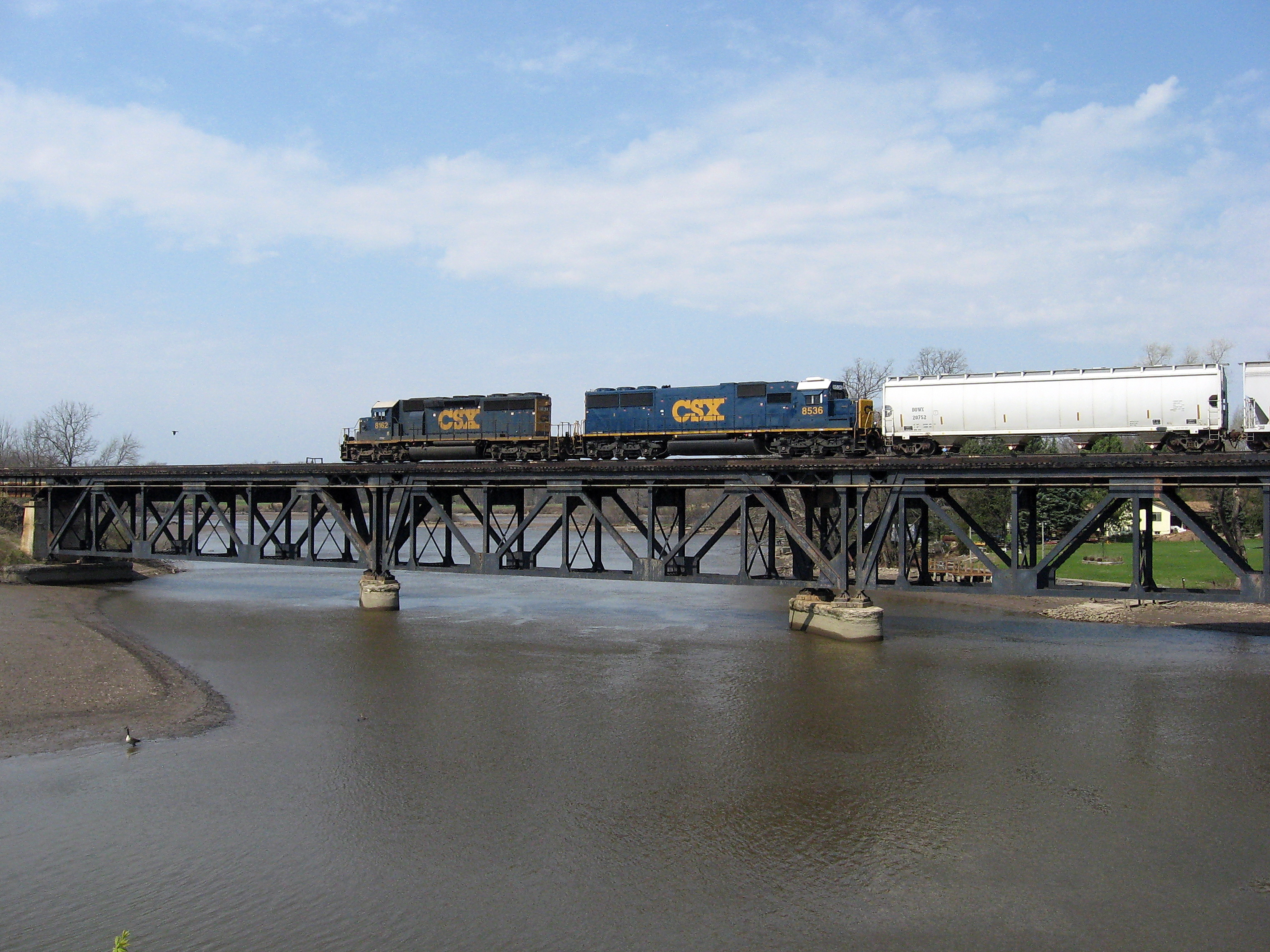 CSXT 8162 and CSXT 8536 power a westbound freight across the Thornapple River bridge on the Plymouth Subdivision, near Grand Rapids.